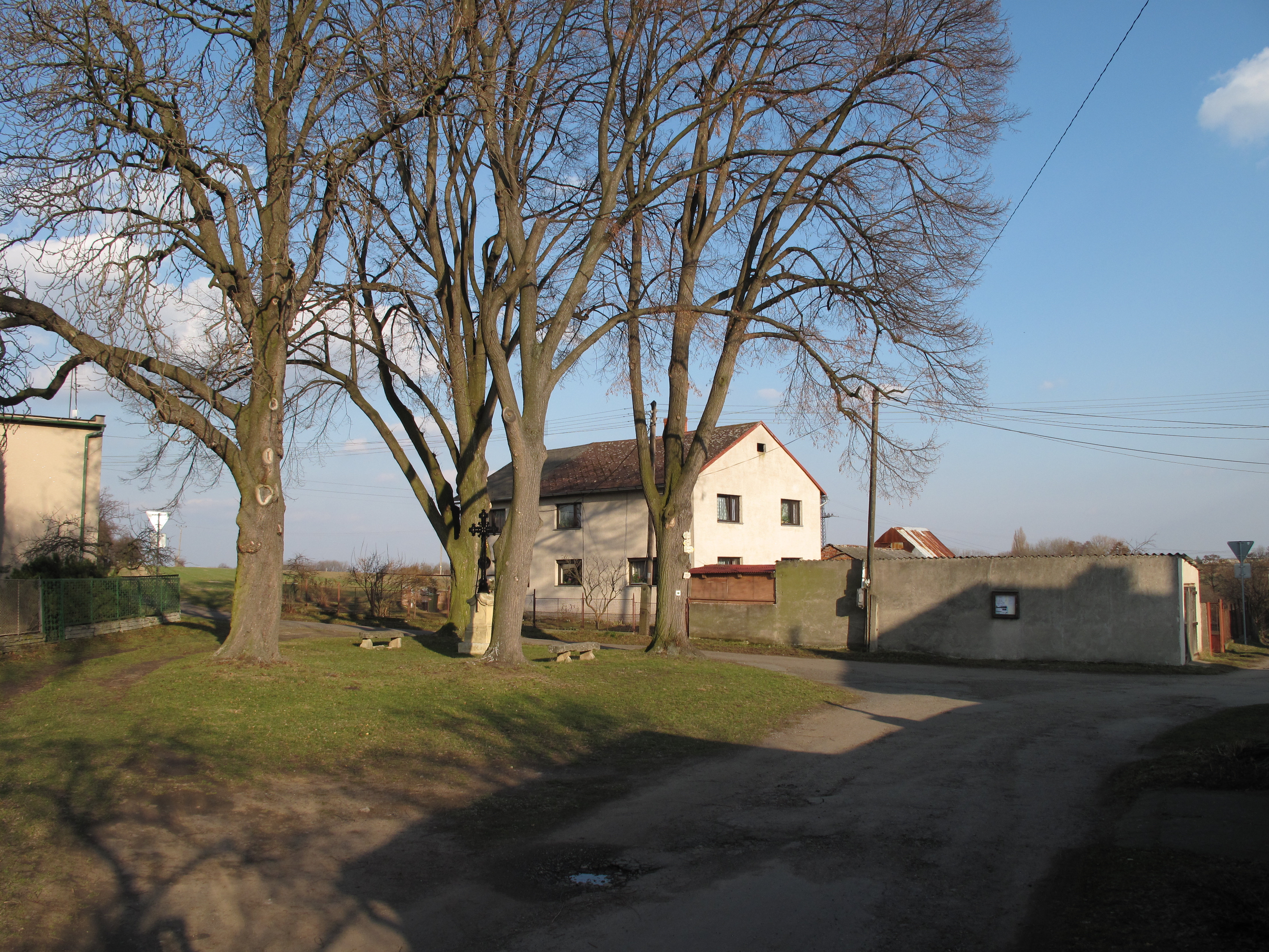 Village square of Škvárovna settlement, part of Bylany village (Miskovice municipallity). Kutná Hora District, Czech Republic. This photograph was taken within the scope of the 'Czech Municipalities Photographs' grant.